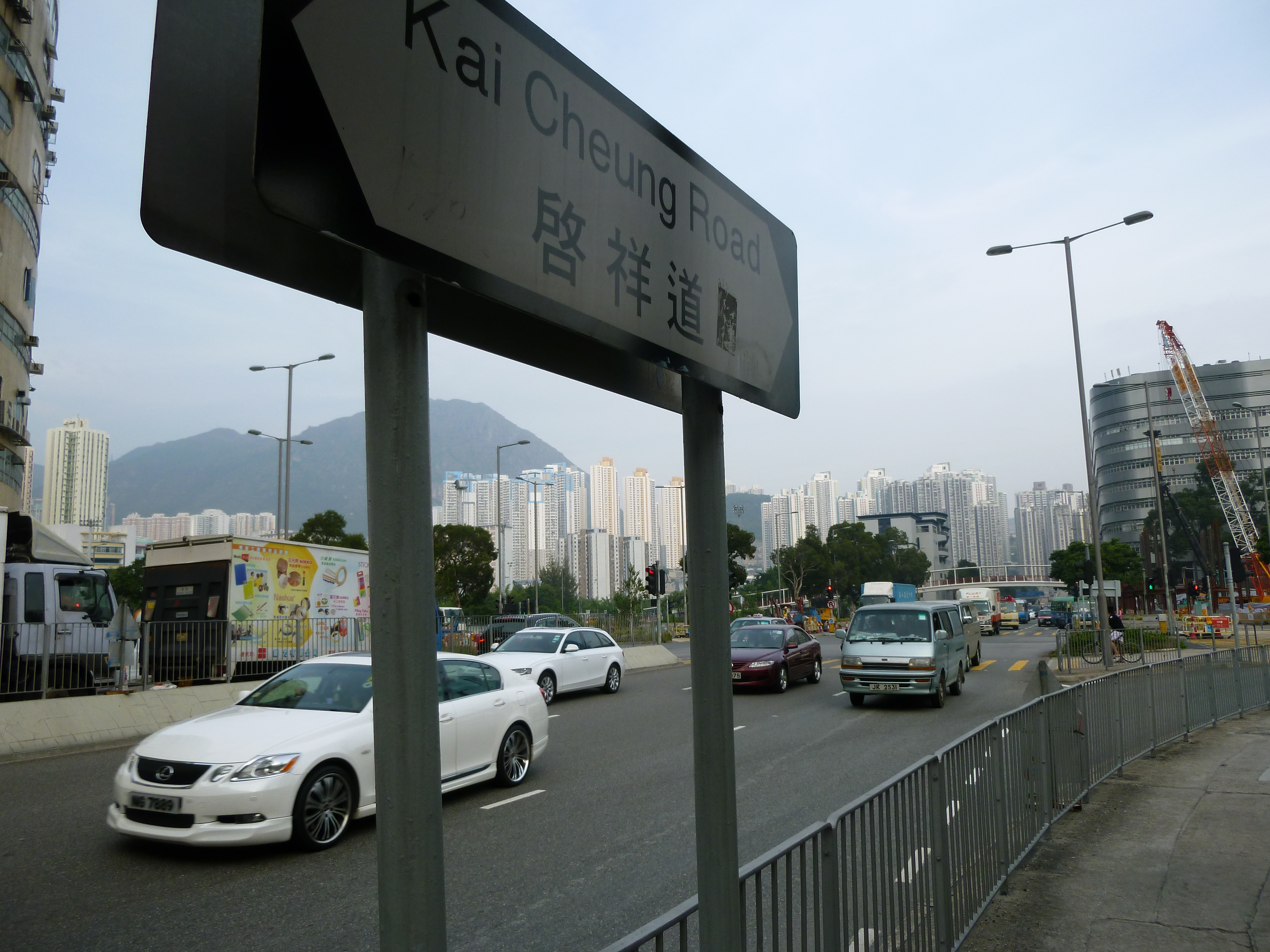 Kai Cheung Road, Kwun Tong, Kowloon, Hong Kong.